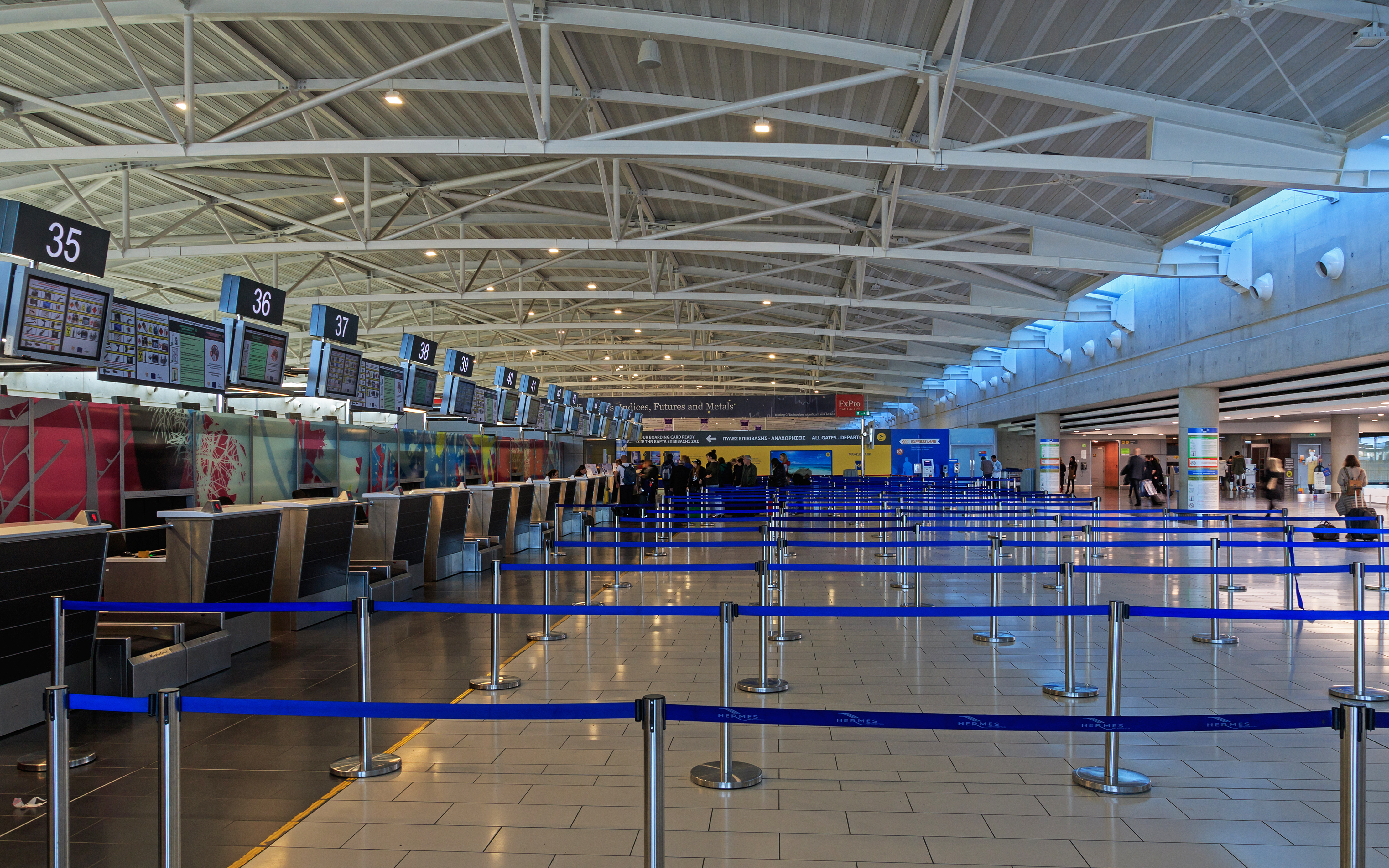 Larnaca International Airport, Cyprus: check-in counters